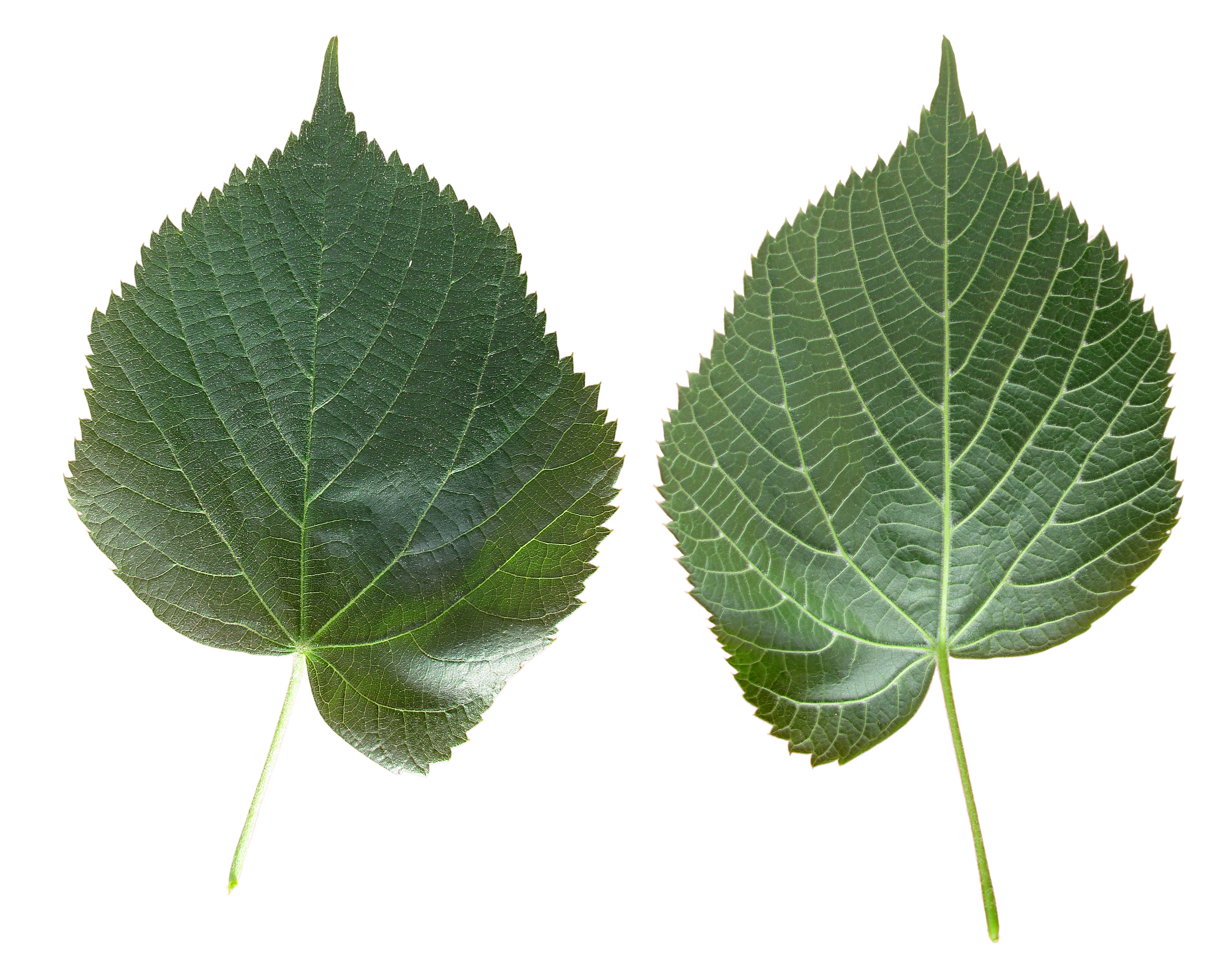 Tilia platyphyllos leaf